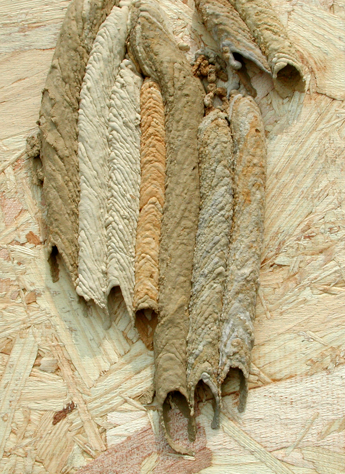 New nest, organ pipe wasp showing different muds used at different times